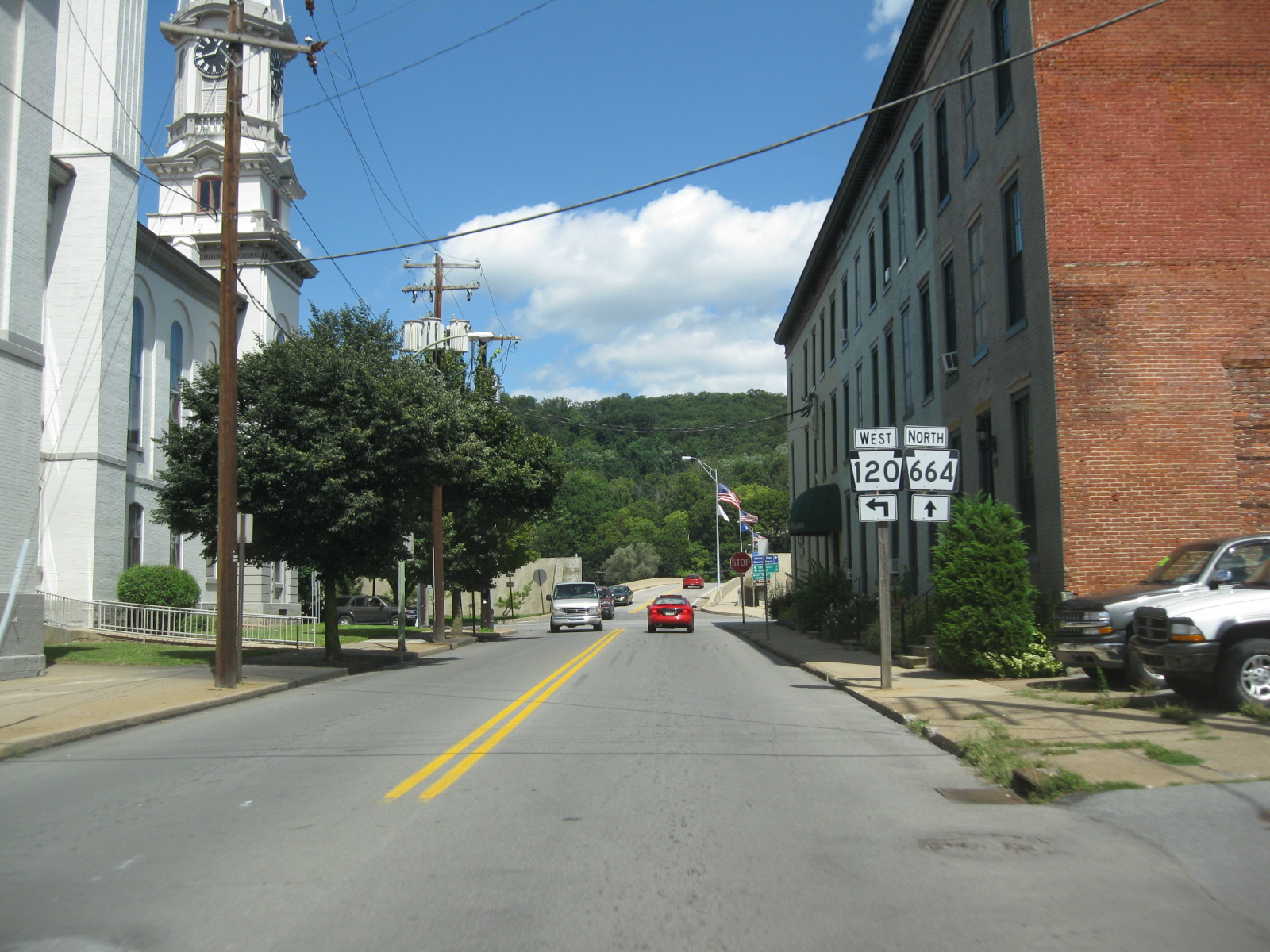 The signed southern terminus of Pennsylvania Route 664 when Route 120 turns west in Lock Haven.